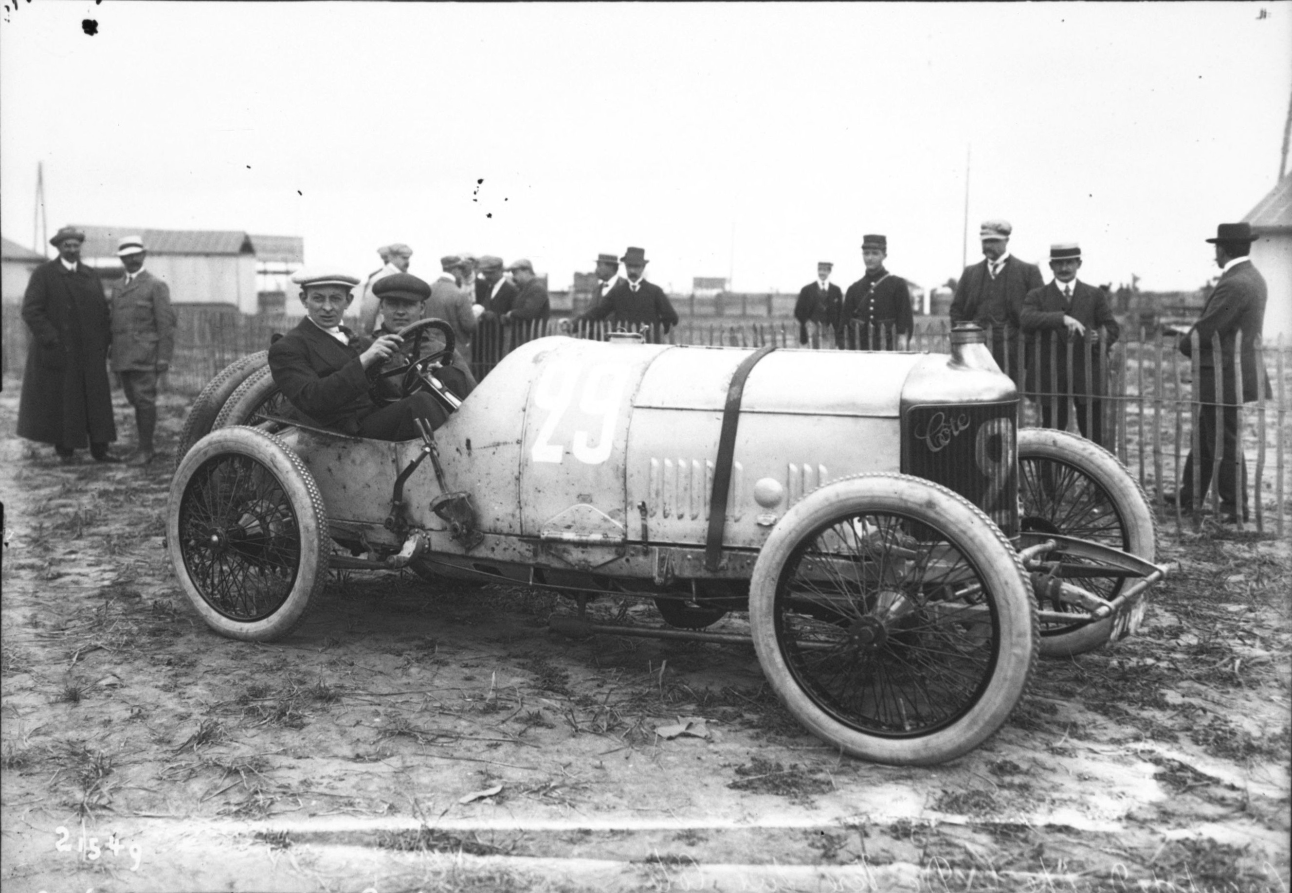 Cyril de Vère in his Côte at the 1912 French Grand Prix at Dieppe.